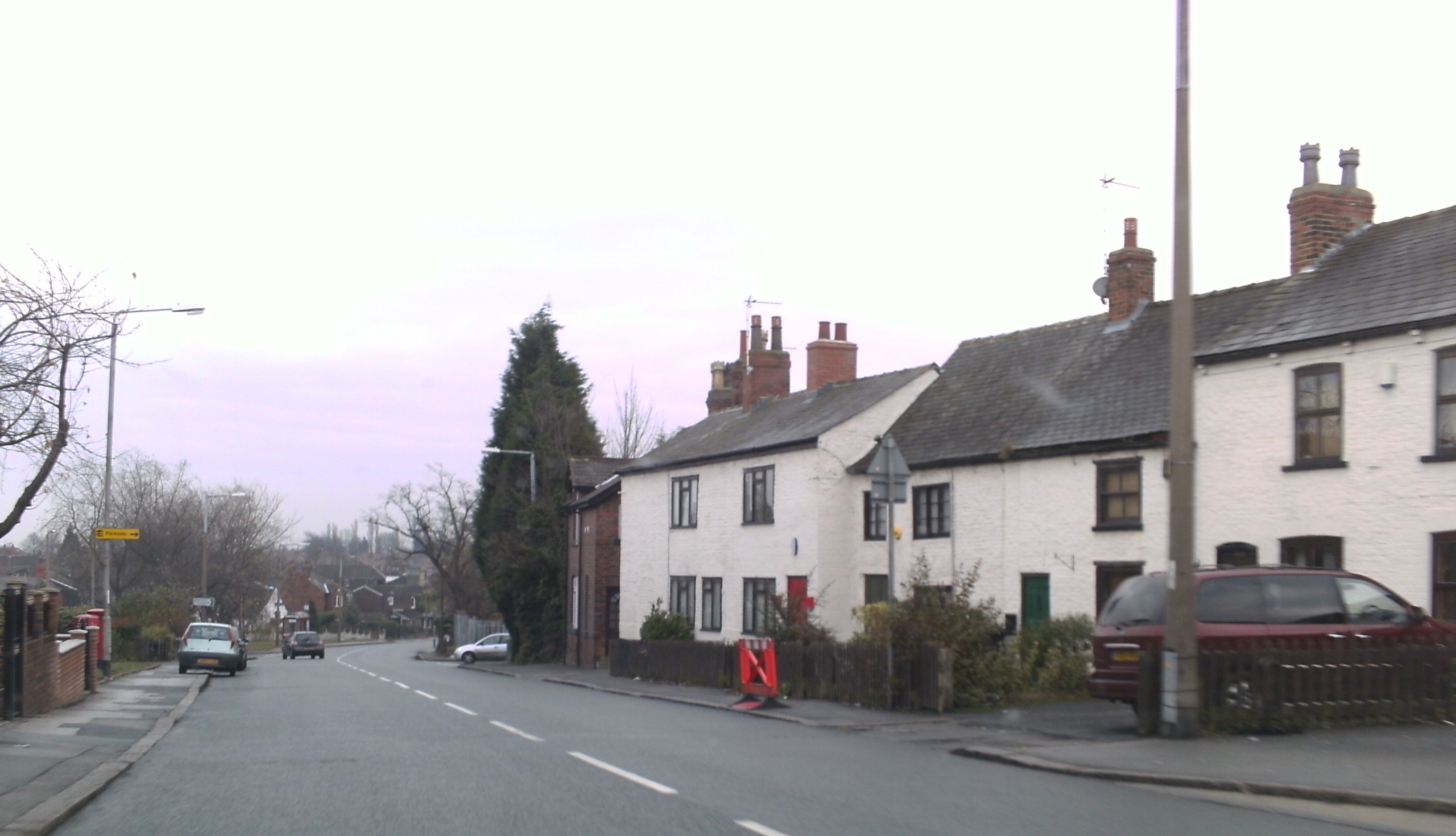 York Road (not A64), looking South in Seacroft Leeds, the view shows the areas of the former village which predate the estate.